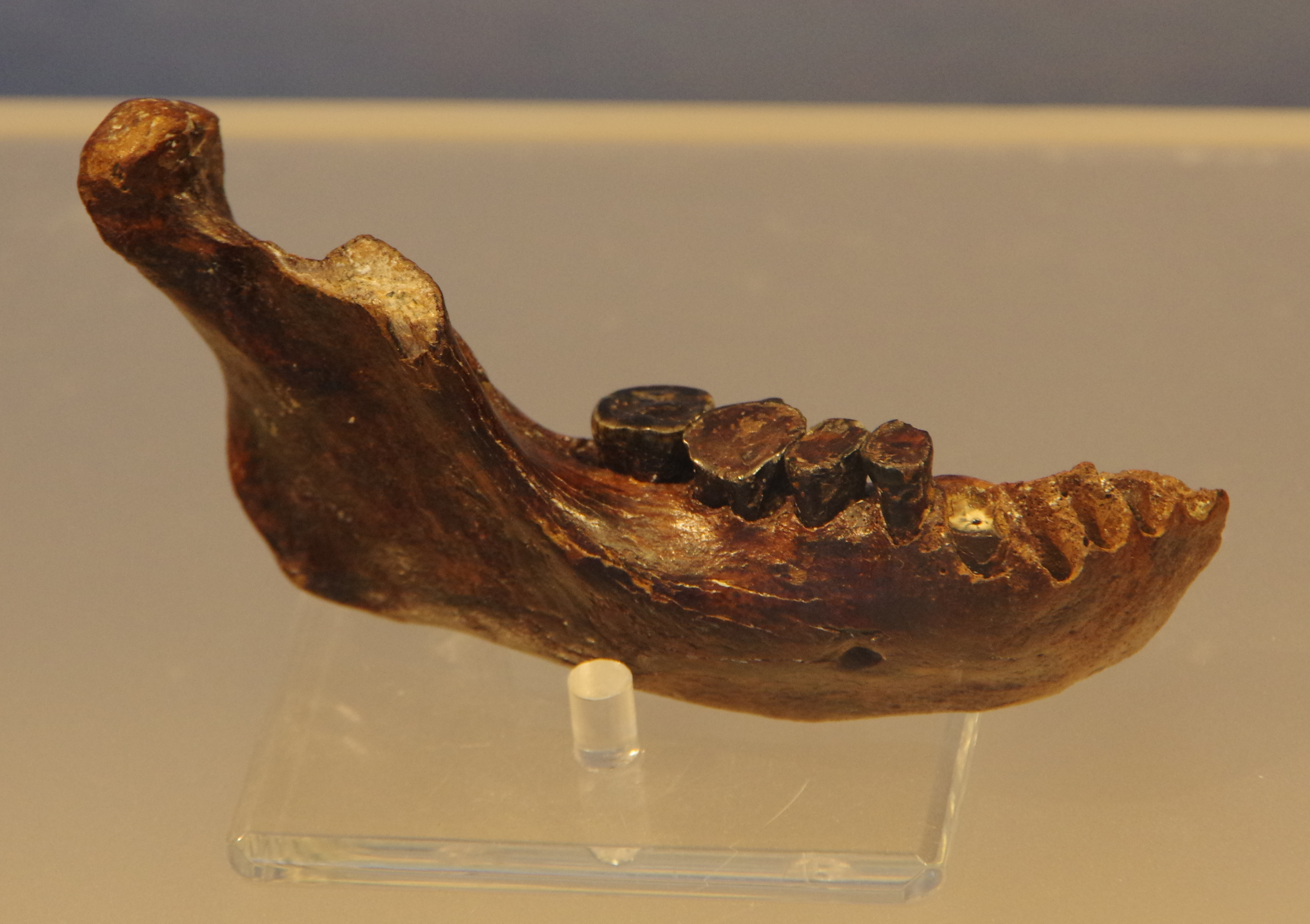 Penghu 1 fossil mandible